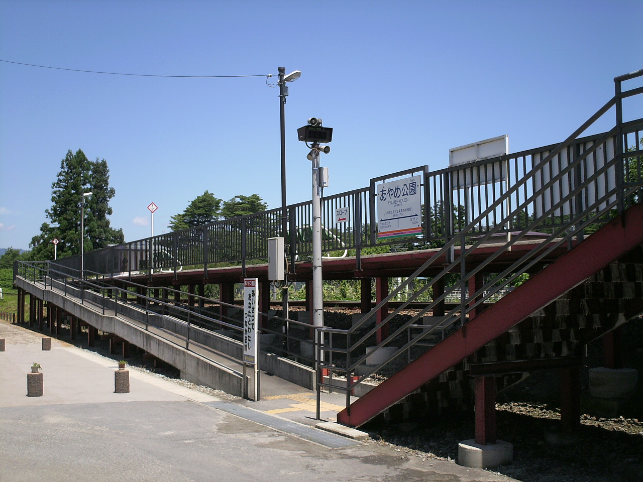 AyameKoen Station.